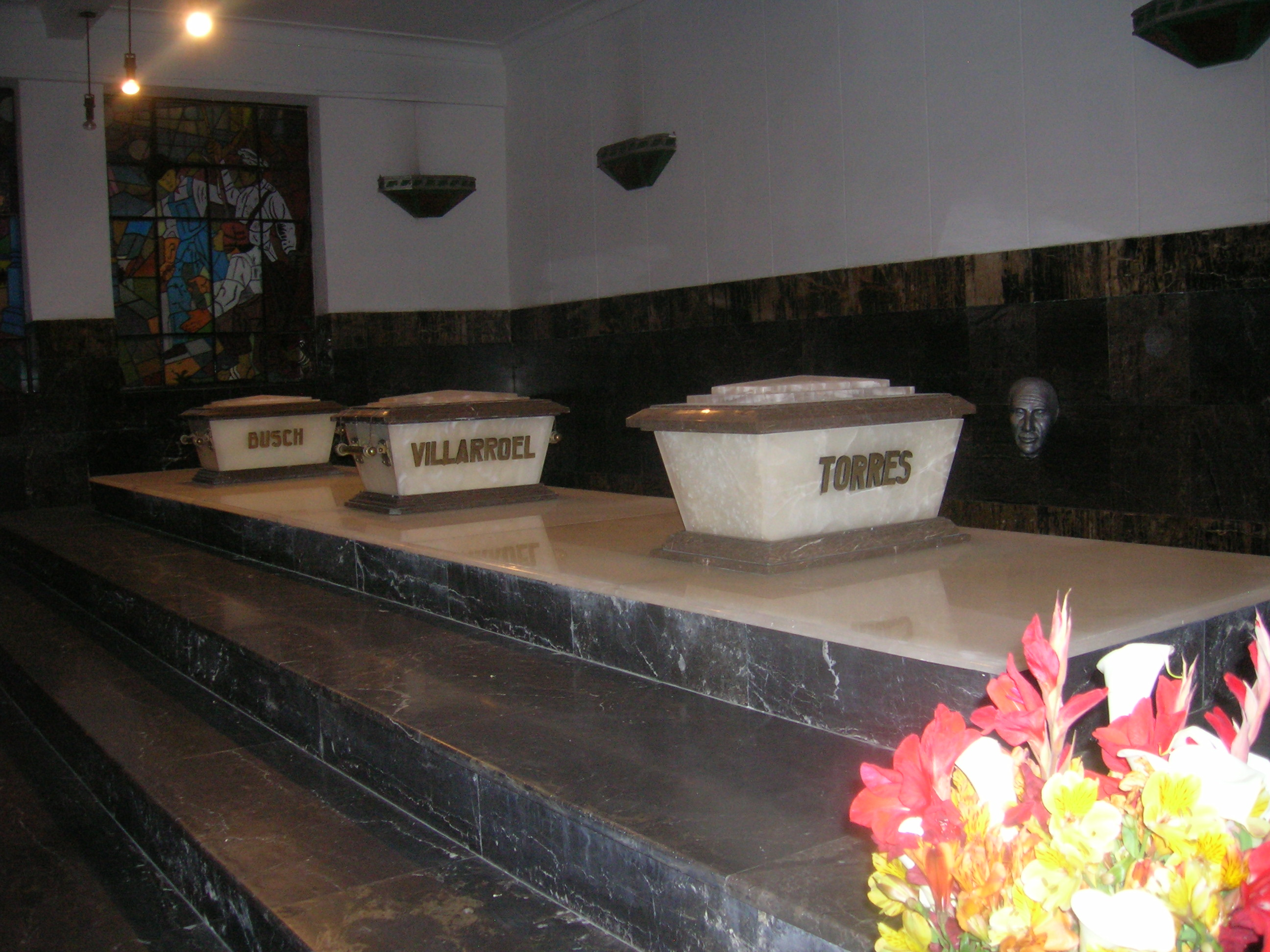 Monument to the National Revolution at the Villarroel Square